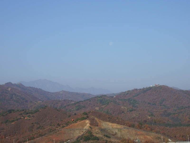 A look at some of the storied 12,000 peaks that form the Diamond Mountain. And the setting moon as well. Diamond Mountain is divided into three parts: Inner, Outer, and Maritime. Those peaks would be Outer; Inner would be well inland. A clear day in this area, like this, is pretty uncommon. A guide stated that this was only the 30th day in all of 2008 that the skies became clear like this; I am very lucky to have this view.